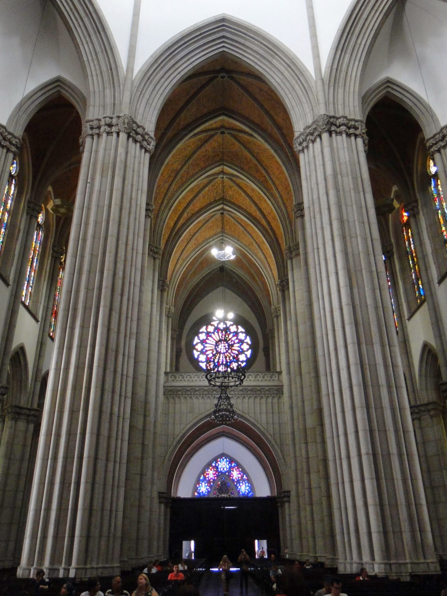 Interior of Sao Paulo Cathedral